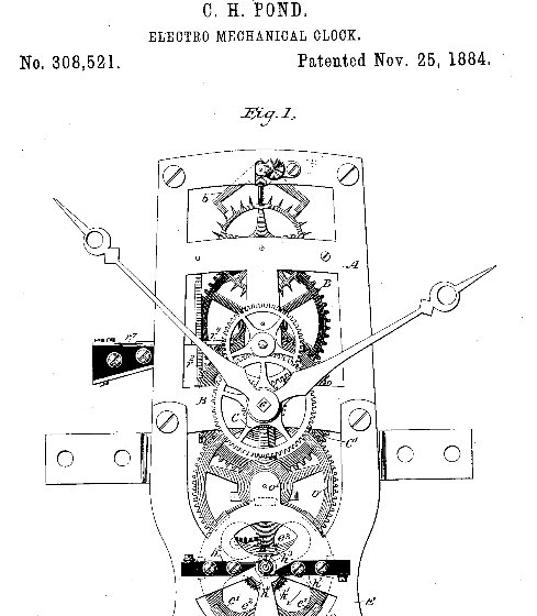 Electro mechanical clock